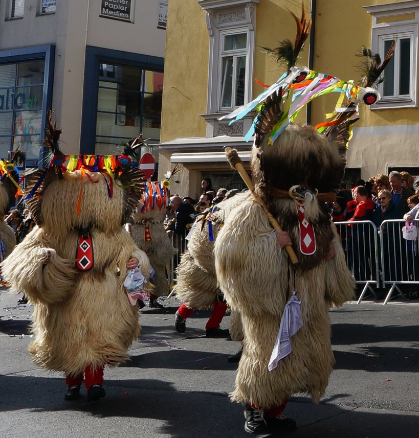 Kurents are demons chasing winter away and calling spring to the country. In small groups, they would visit not only houses in their own village but also in neighbouring ones, from Shrove Sunday to Ash Wednesday. On the photo they dance and jump, large bells tied at the waist ring loudly and the Kurents come from the smallest town of Ptuj in Slovenia, European Union.